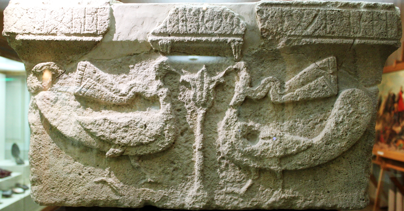 Caucasian Albania